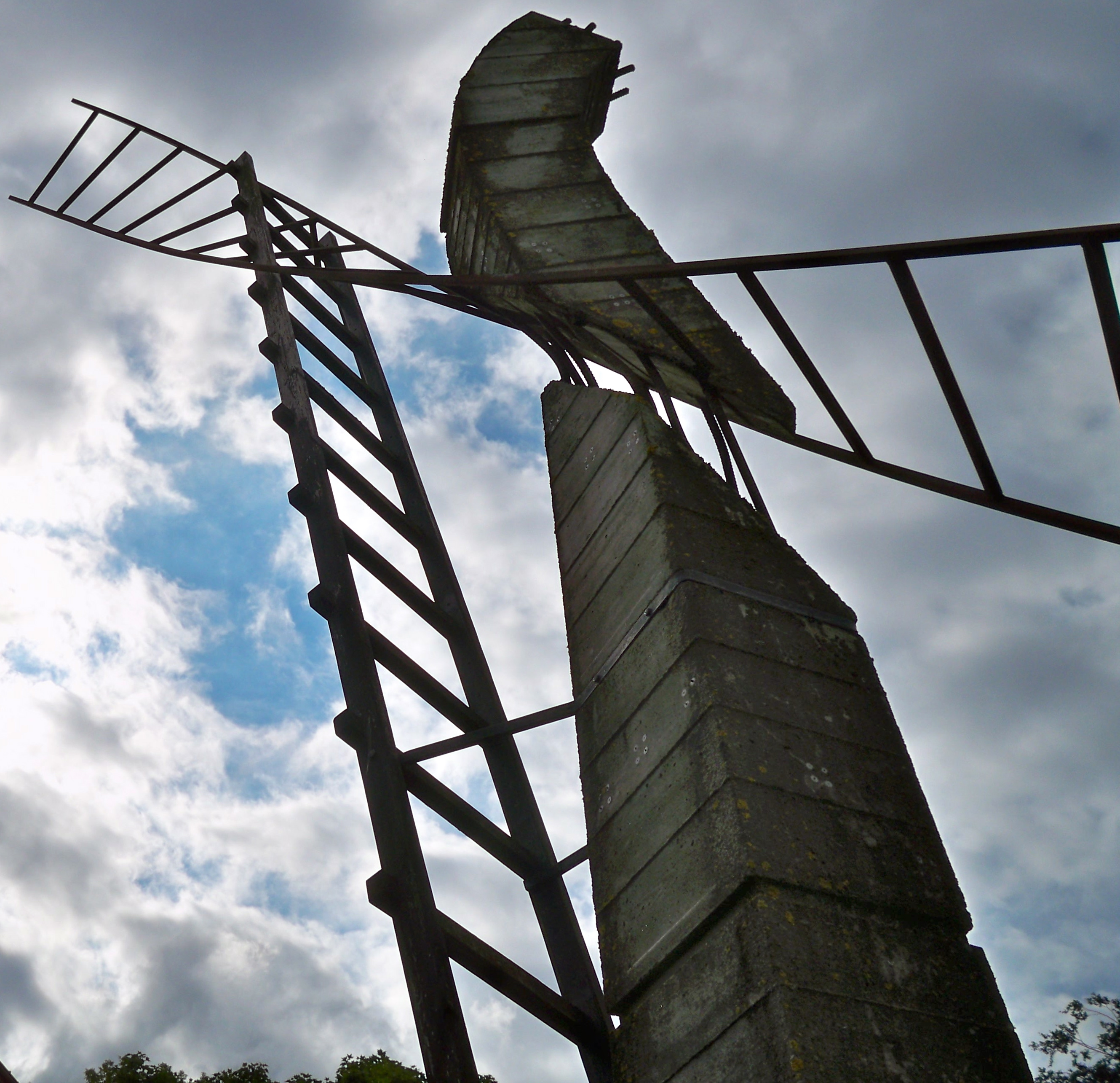 This sculpture by the Swedish sculptor Lars Kleen (*1941) is called Fri (Free, 1998). On a small inner yard of the Borås City Hall, it raises as the city's own "manifestation against violence and racism in 1998 to the memory of the holocaust victims".